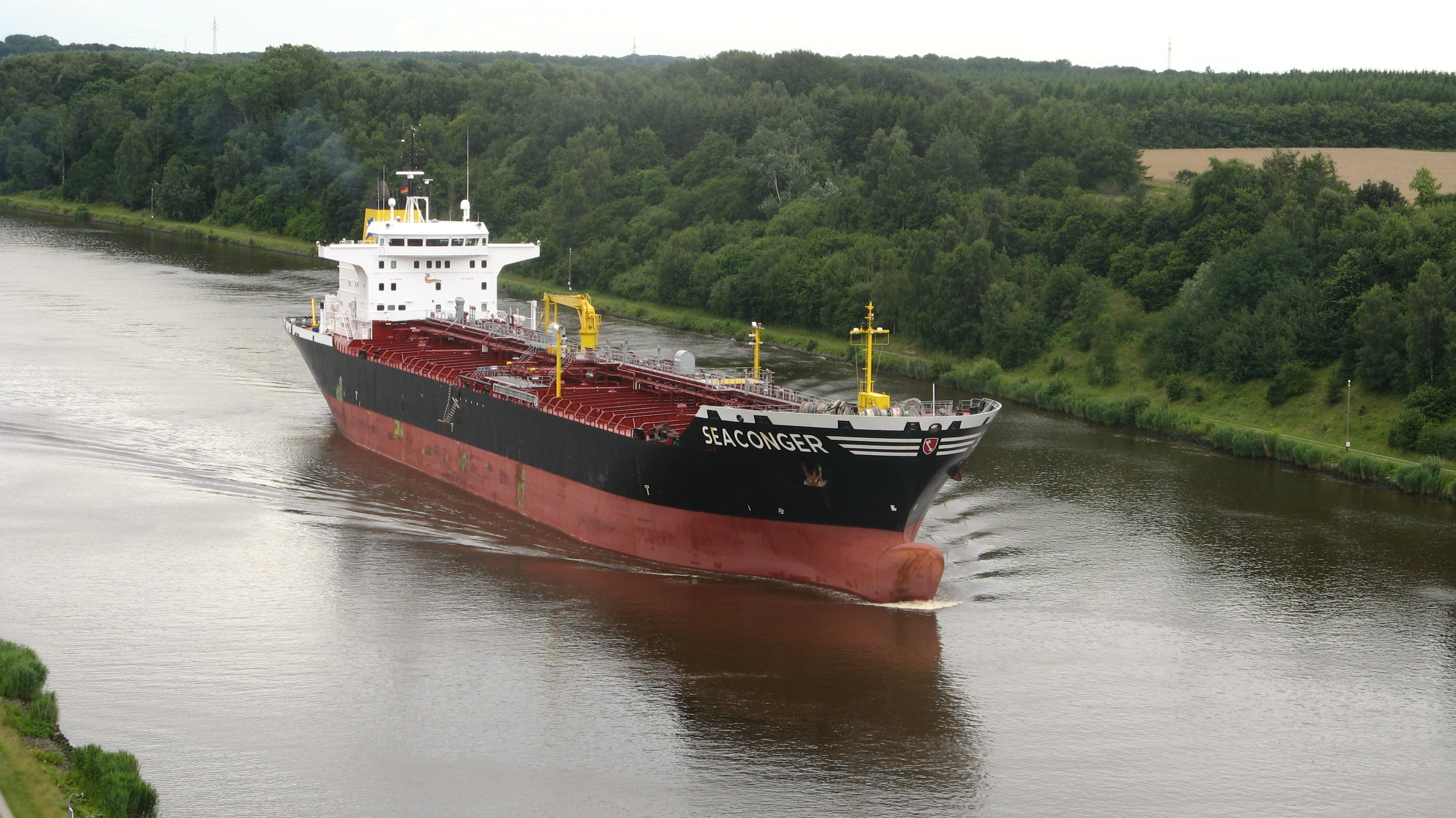 Tanker Seaconger on the Kiel Canal. IMO Number: 9352298 MMSI Number: 211822000 Callsign: DEJY Length: 178 m Beam: 28 m